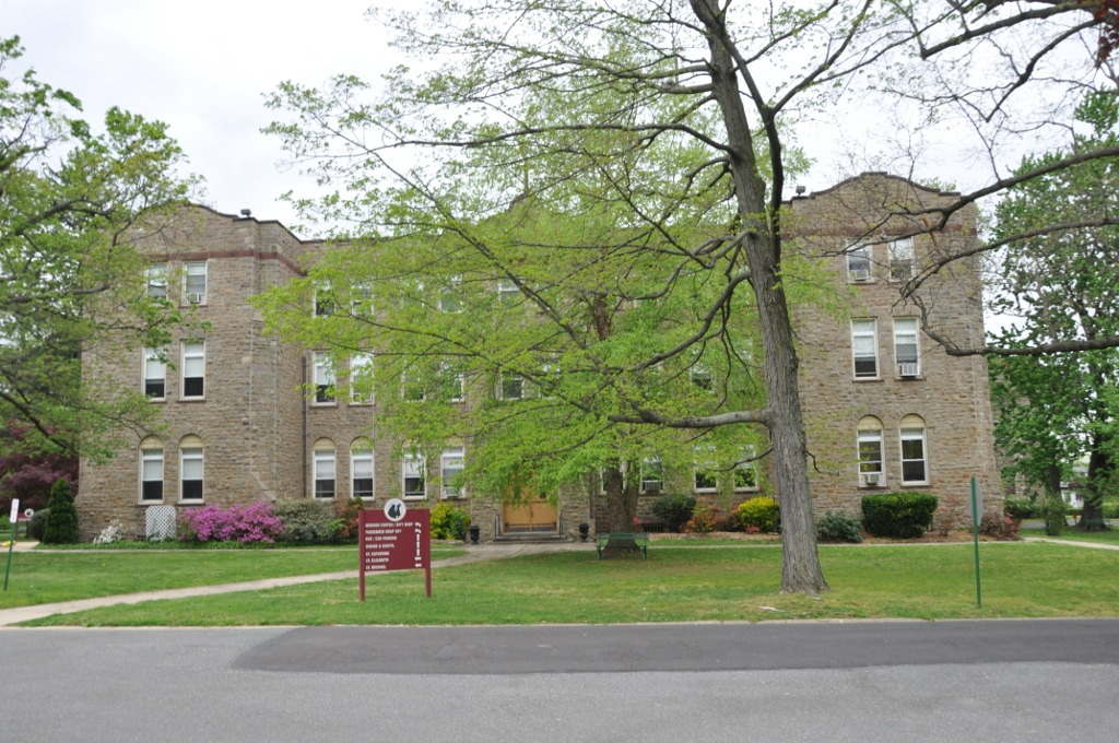 Housing unit at the Katharine Drexel Shrine in Bensalem, PA; once known as St. Elizabeth's Convent.